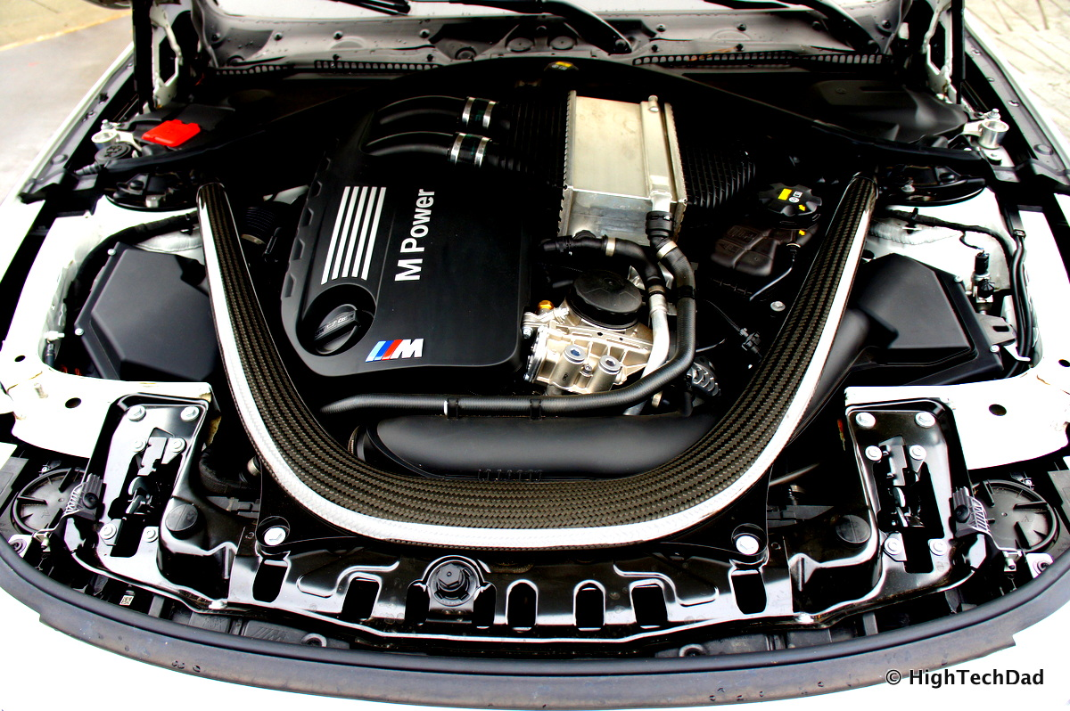 Engine of the 2015 BMW M3 Sedan. More reviews can be found at: or